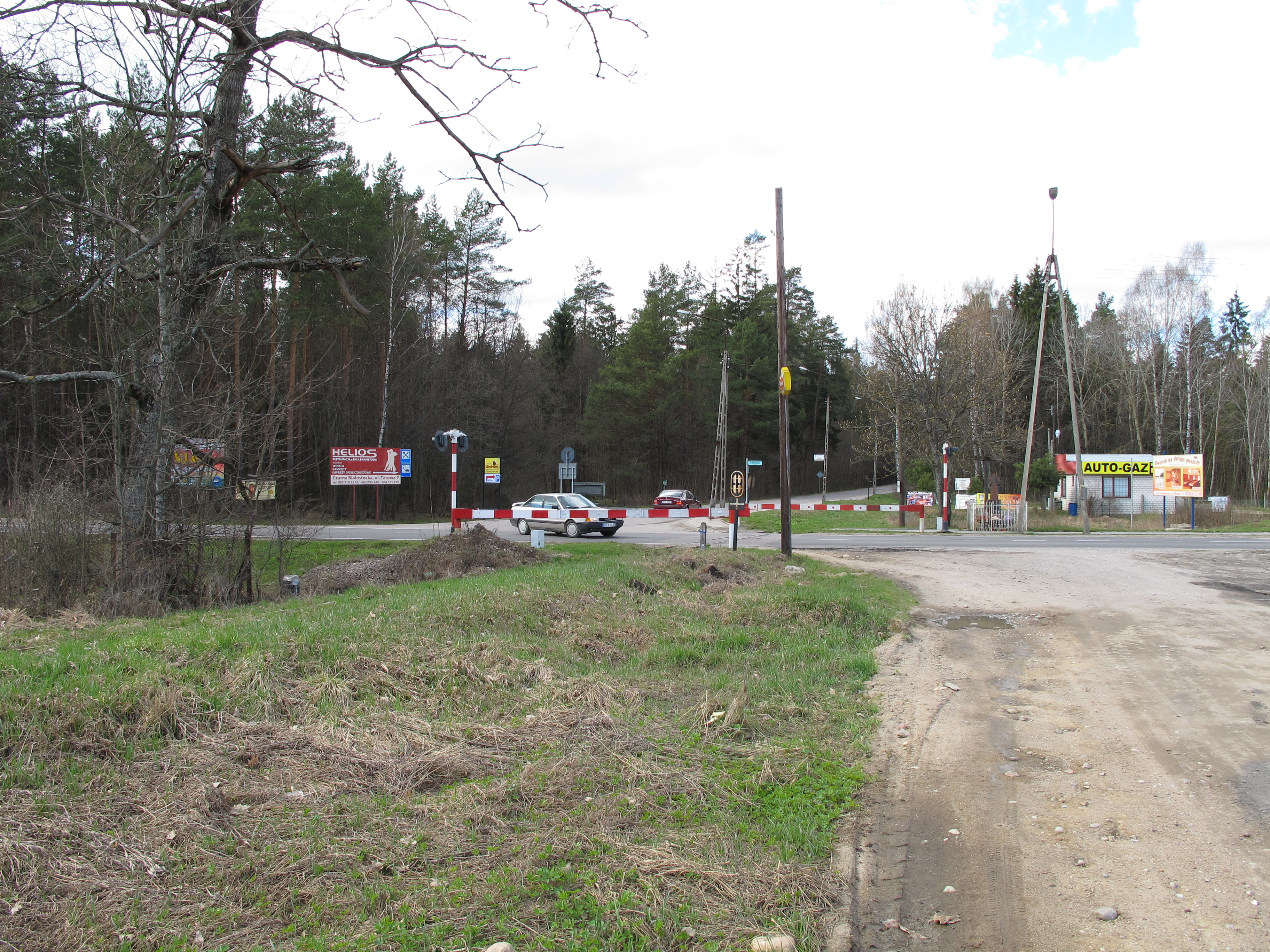 Knyszyn Forest Narrow Gauge Railway — Crossing with National road 19 near Buksztel1 station